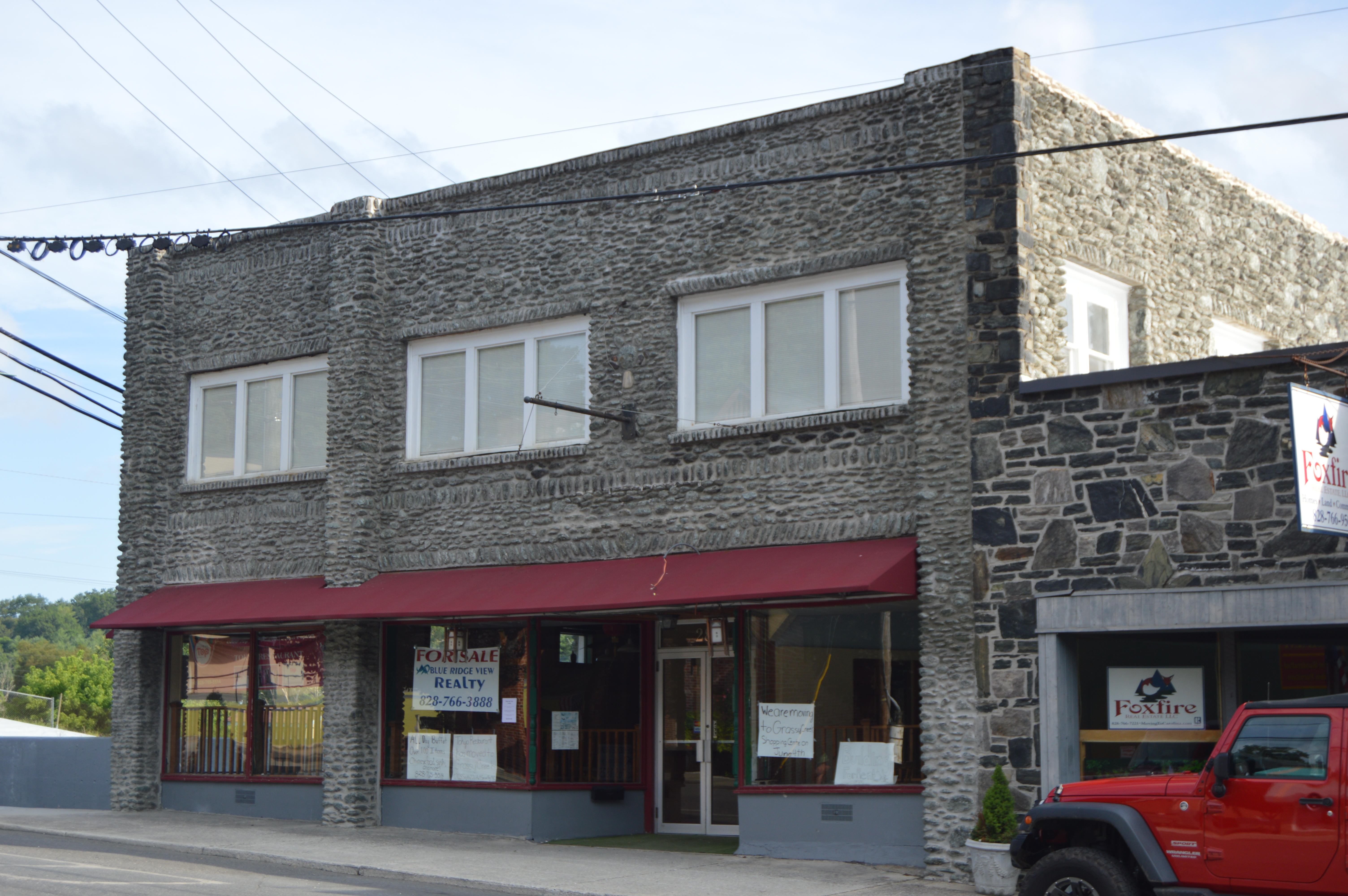 Front and western side of the Gunter Building, located at 288 Oak Avenue in Spruce Pine, North Carolina, United States. Built in 1941 of biotite, it is listed on the National Register of Historic Places.